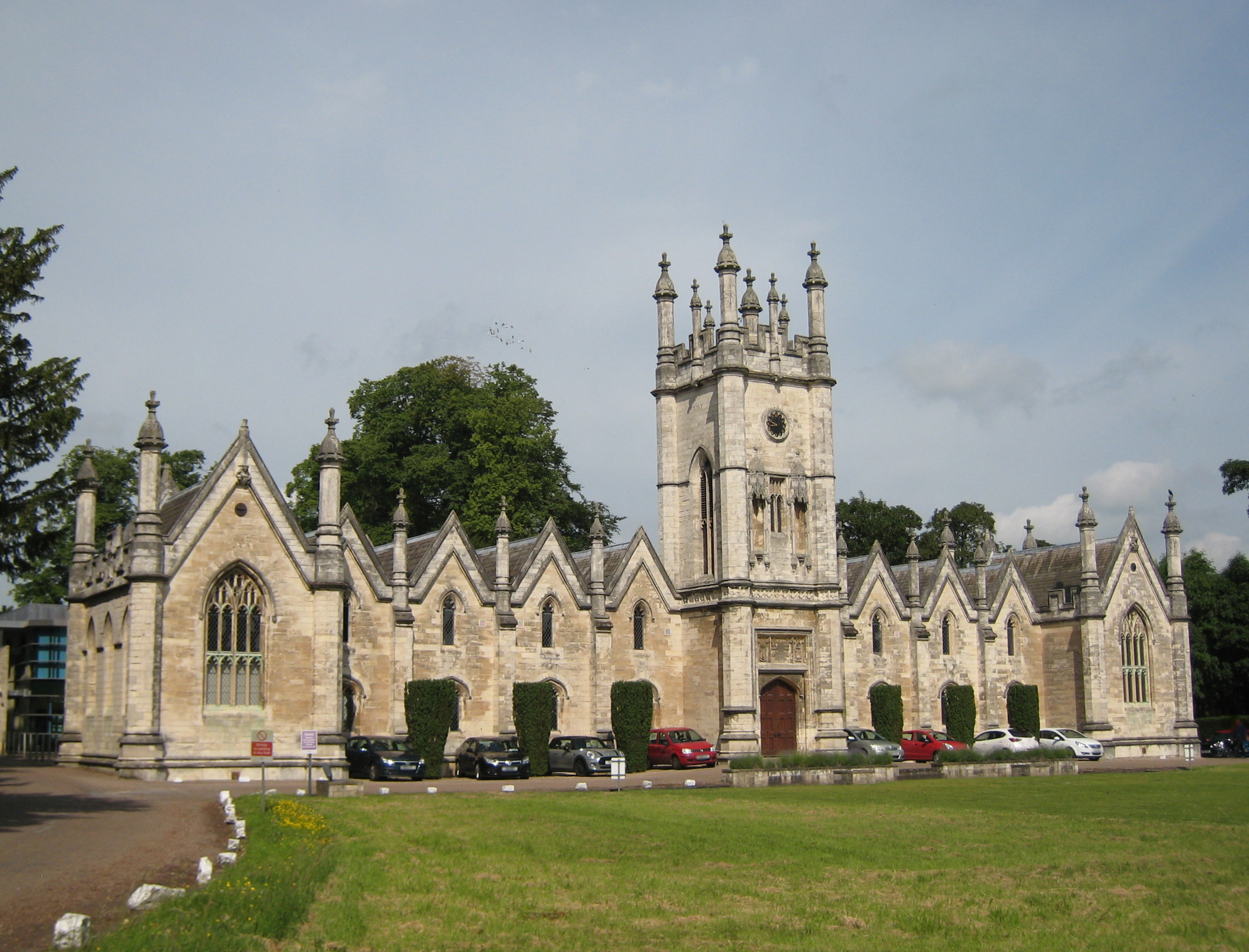 Gascoigne Almshouses, now Priory Park.